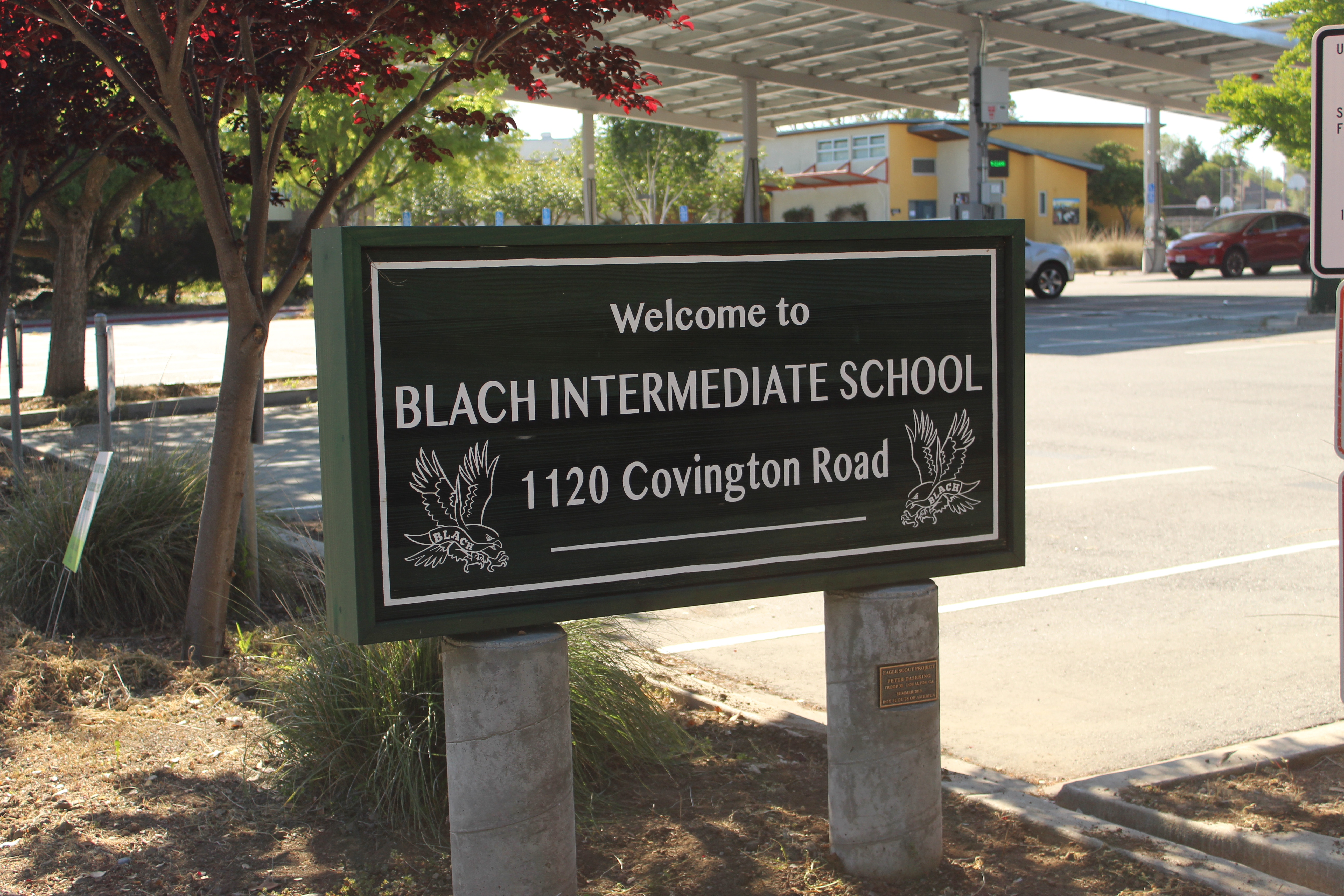 Blach school front sign